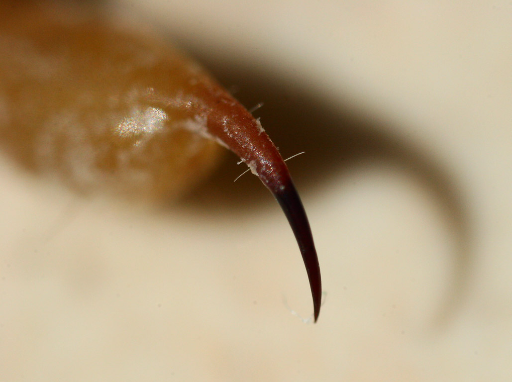 Closeup (macrograph) of the barb of an Arizona Bark Scorpion.